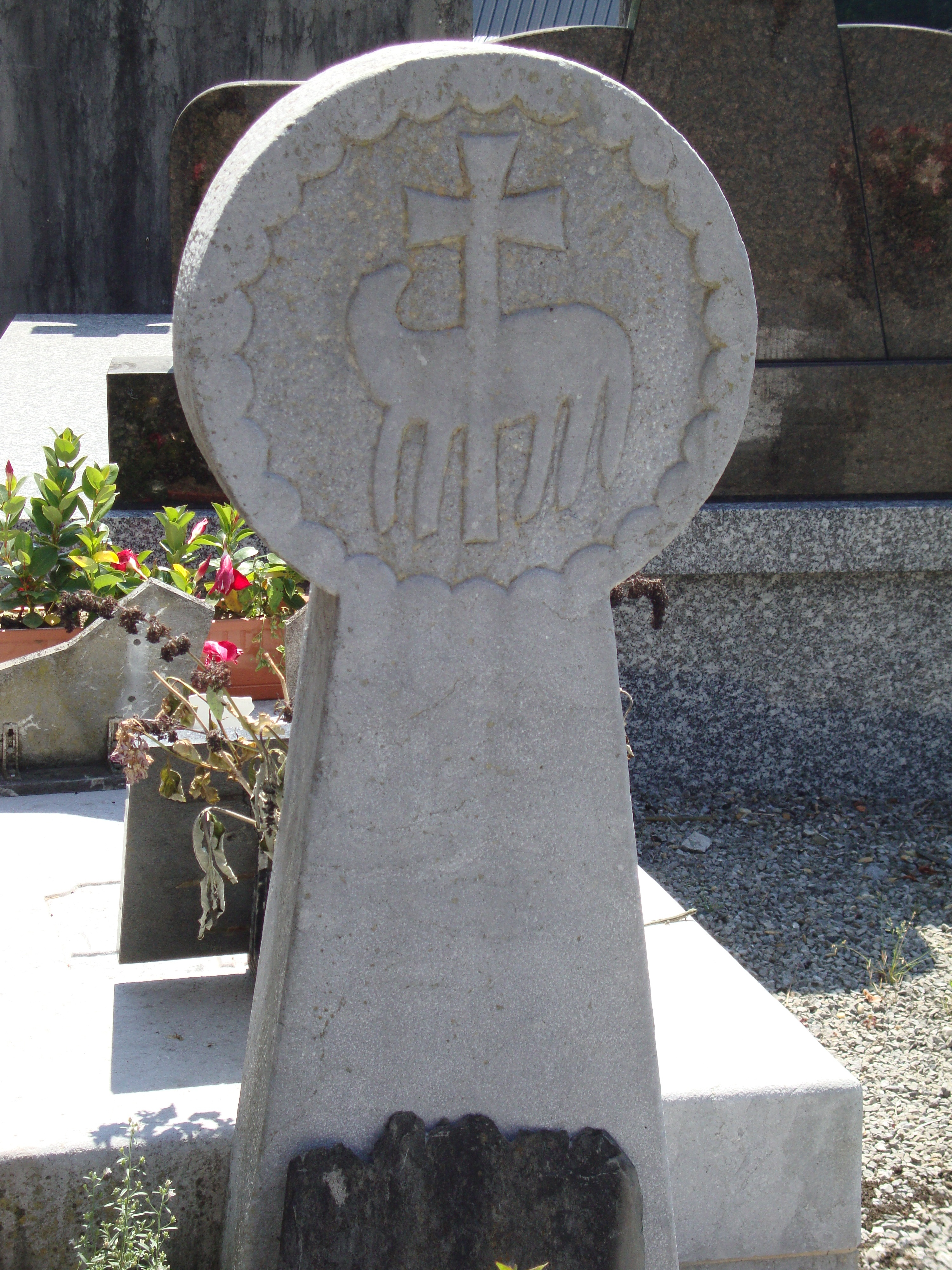 Haux (Pyr-Atl, Fr) basque stele